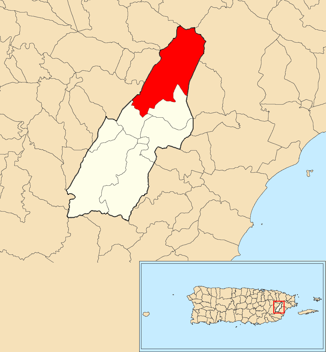 El Río, Las Piedras, Puerto Rico locator map